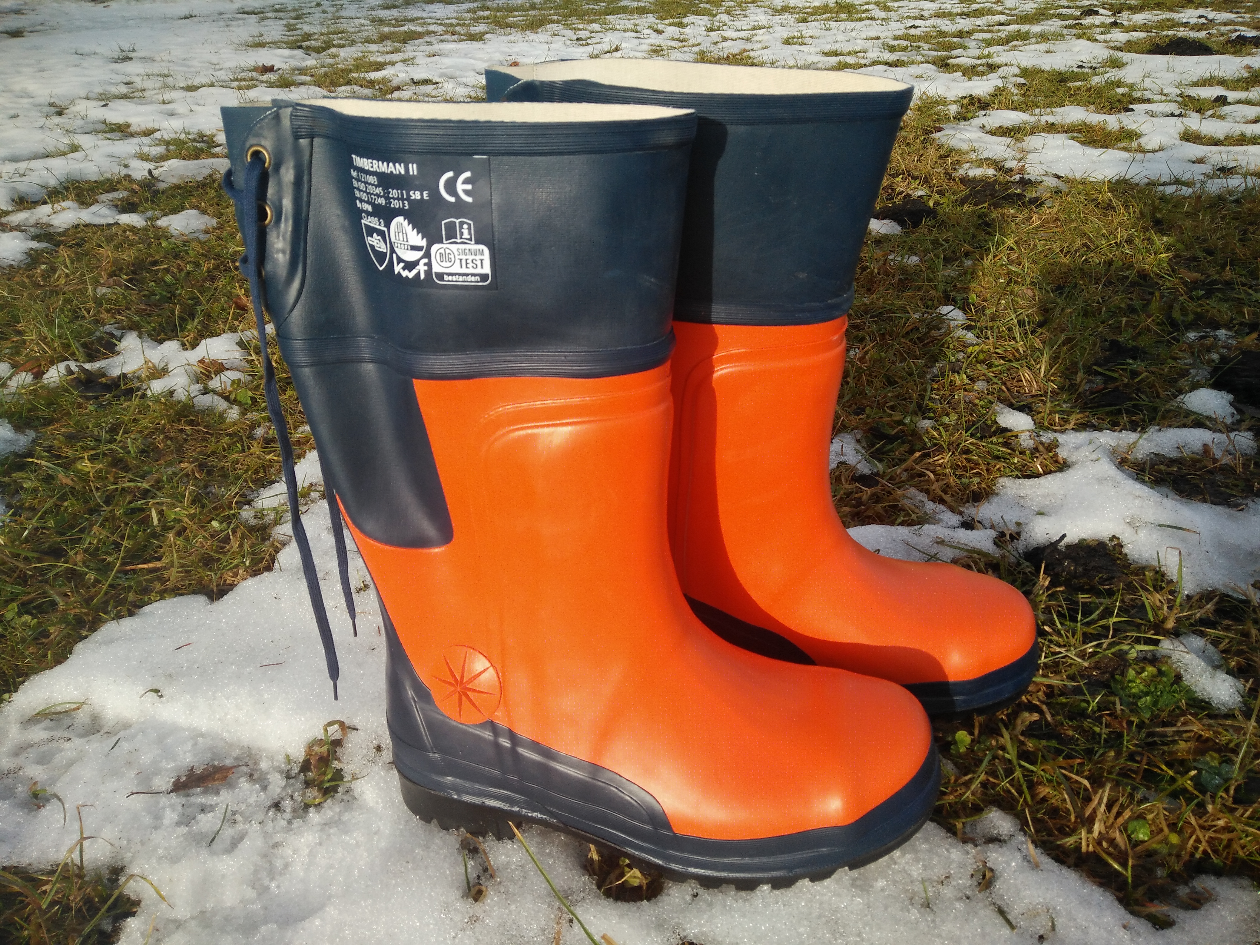 Boots for chain saw work